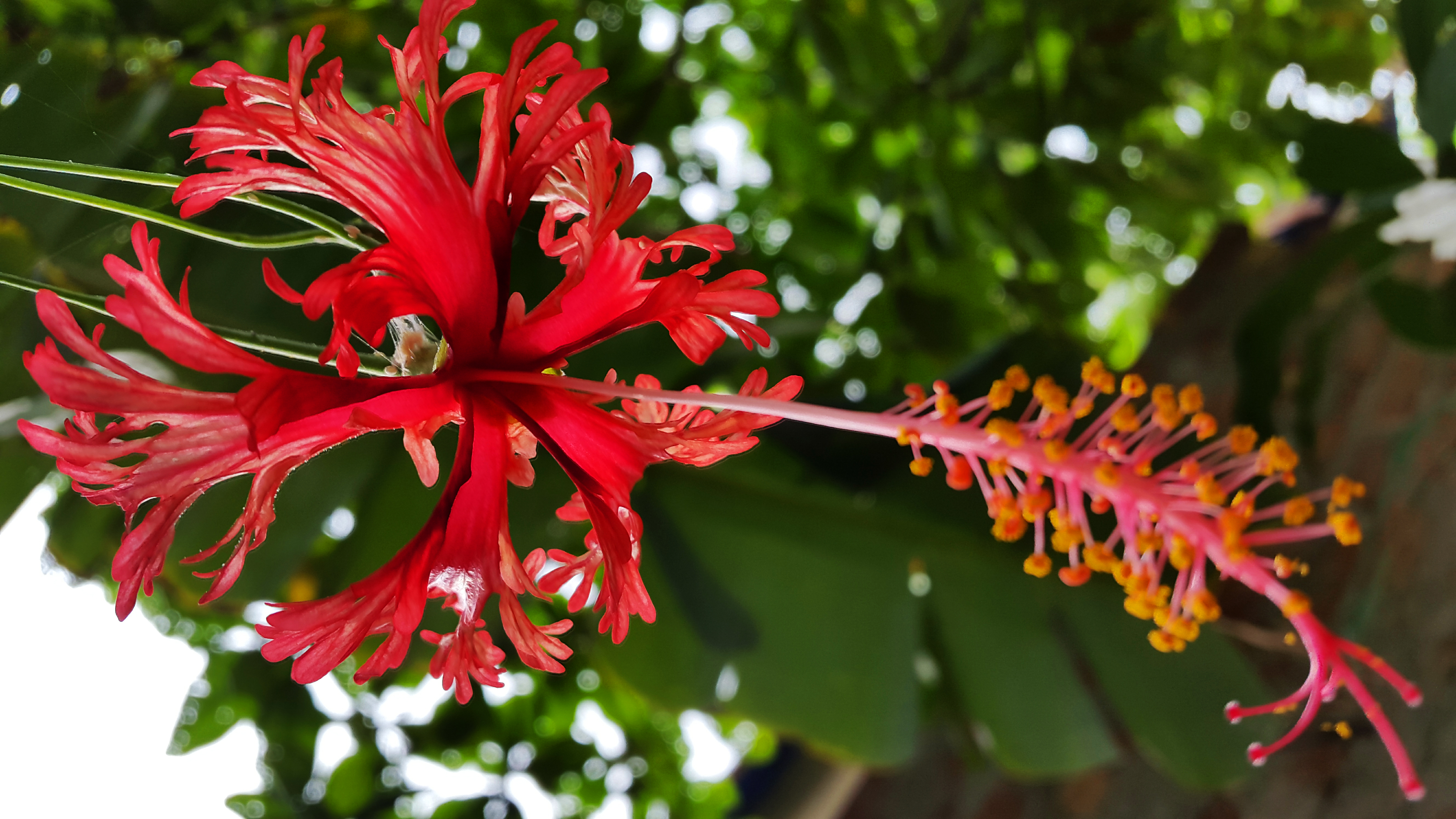 this is the Fresh China Rose from My Home Garden in Kolkata India it's so beautiful rose